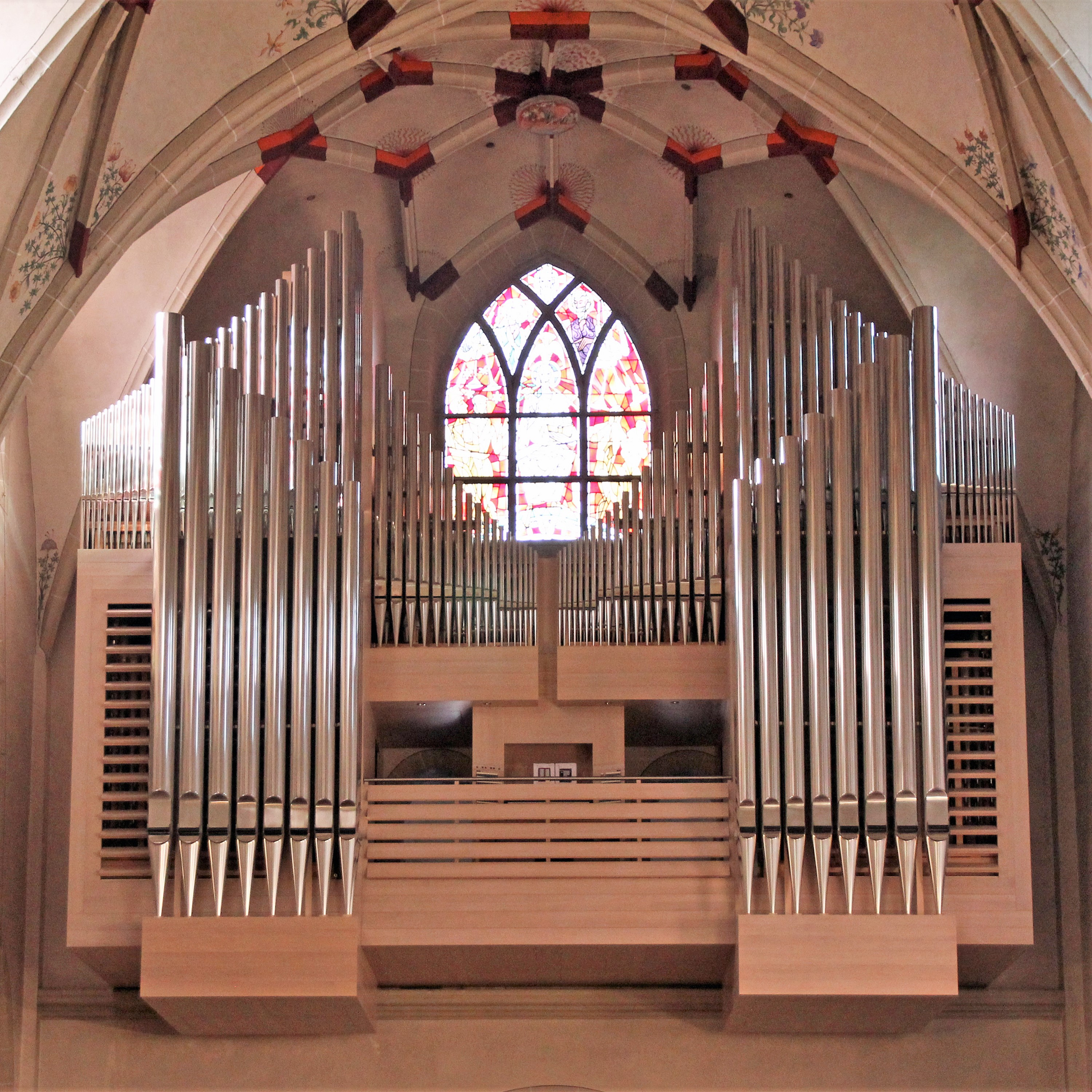 Pipe organ at Basilica of St. Castor in Koblenz